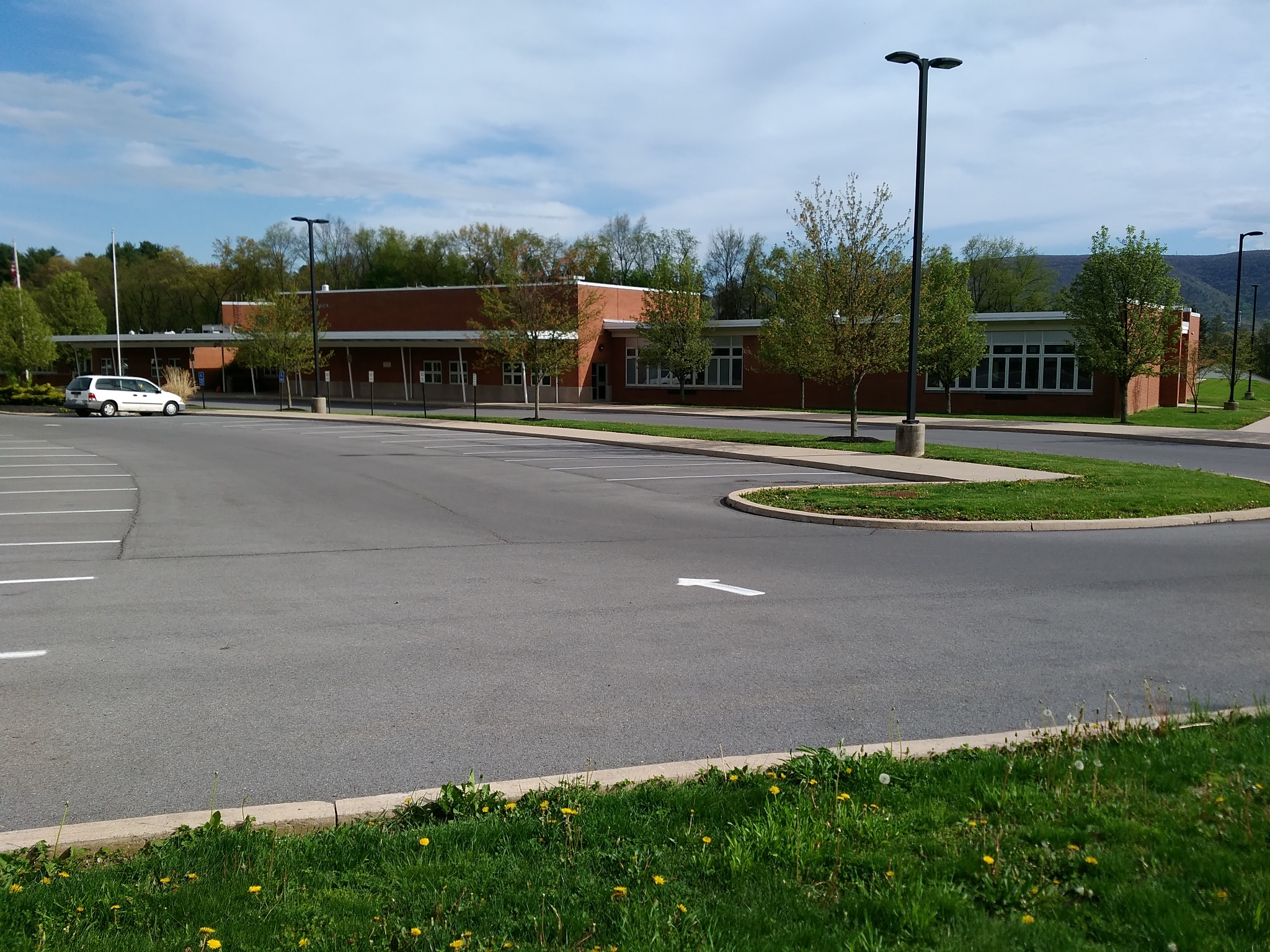 Front of Donald E. Schick Elementary School in Loyalsock, Pennsylvania